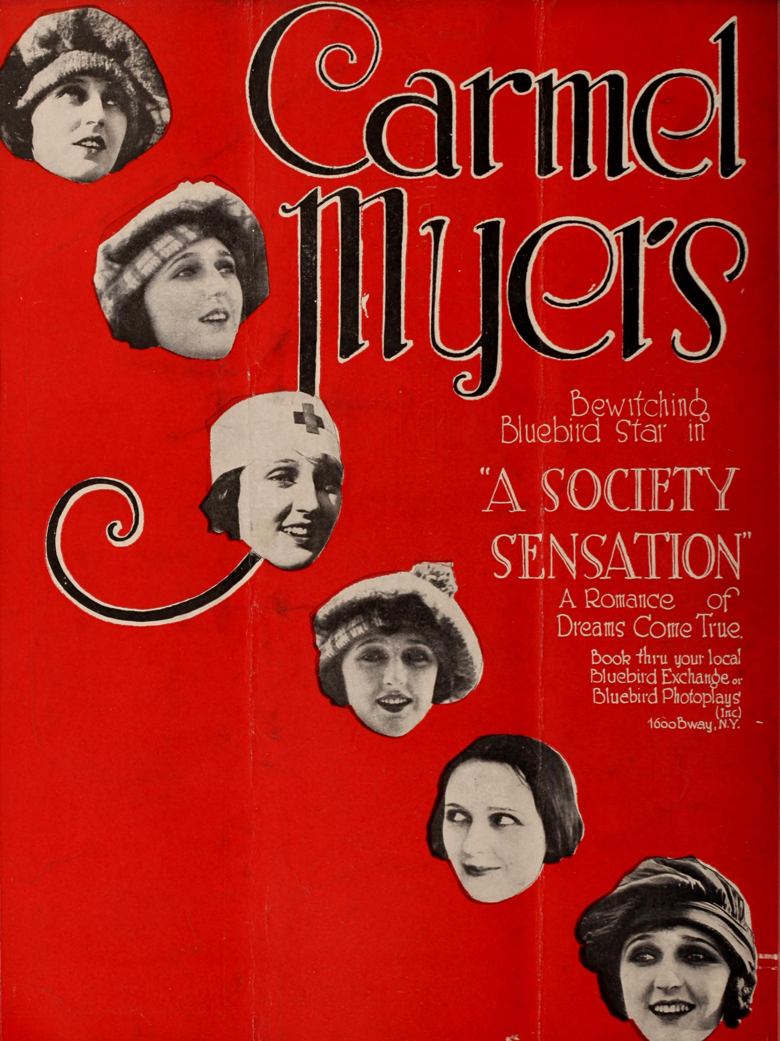 Carmel Myers in an advertisement for the film A Society Sensation from The Moving Picture Weekly.